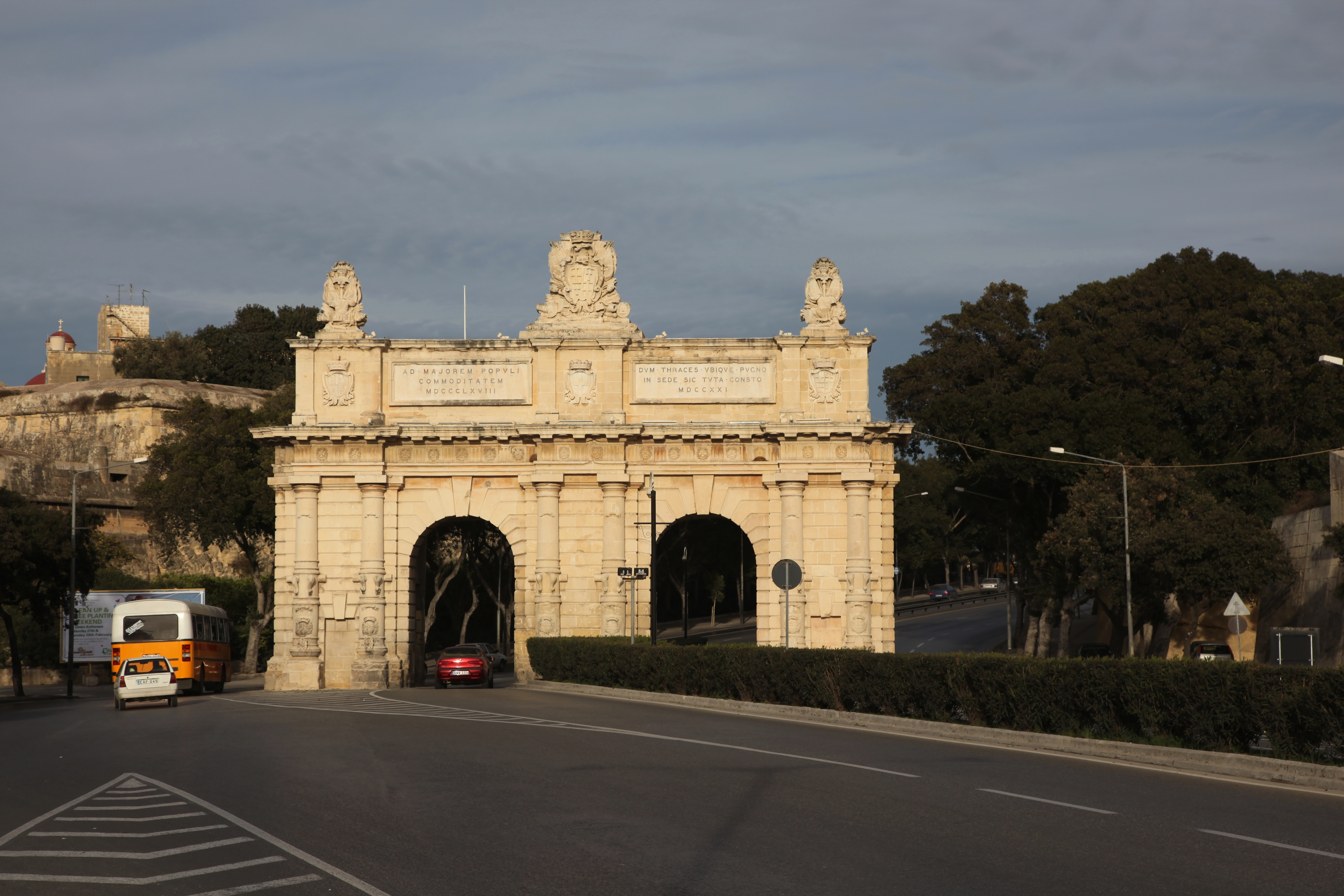 Porte des Bombes in Floriana on the main road to Valetta